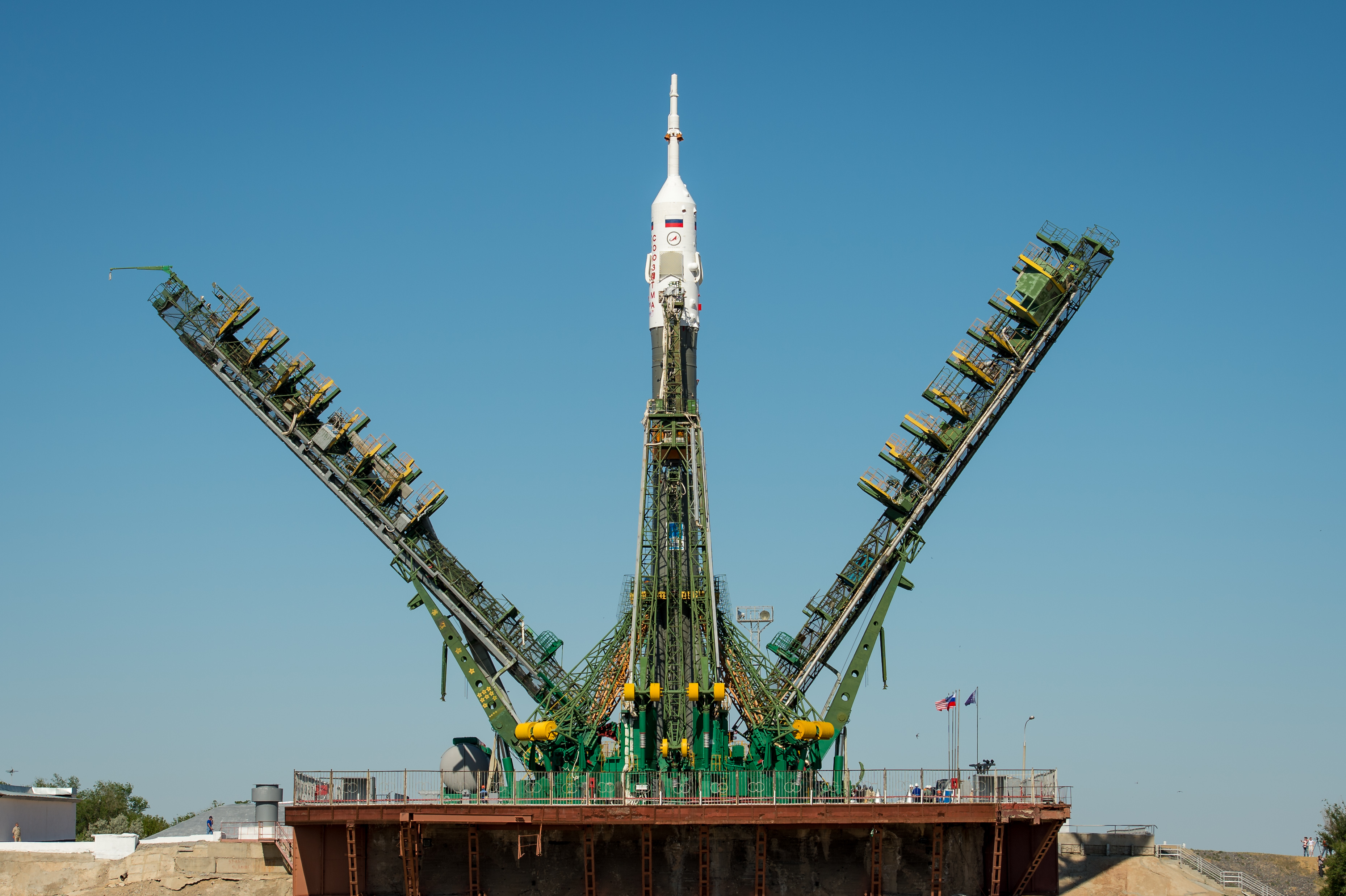 The Service arms are raised into position around the Soyuz rocket, with the TMA-09M spacecraft, after arriving at the Baikonur Cosmodrome launch pad by train, Sunday, May 26, 2013, in Kazakhstan. The launch of the Soyuz rocket to the International Space Station (ISS) with Expedition 36/37 Soyuz Commander Fyodor Yurchikhin of the Russian Federal Space Agency (Roscosmos), Flight Engineers; Luca Parmitano of the European Space Agency, and Karen Nyberg of NASA, is scheduled for Wednesday May 29, Kazakh time. Yurchikhin, Nyberg, and, Parmitano, will remain aboard the station until mid-November.